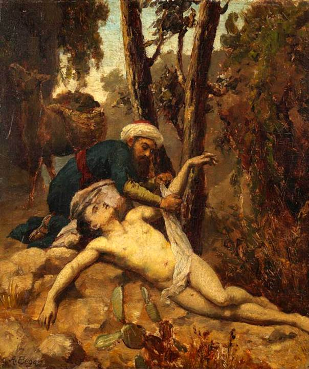 The Merciful Samaritan by A. Begas (brighter version)